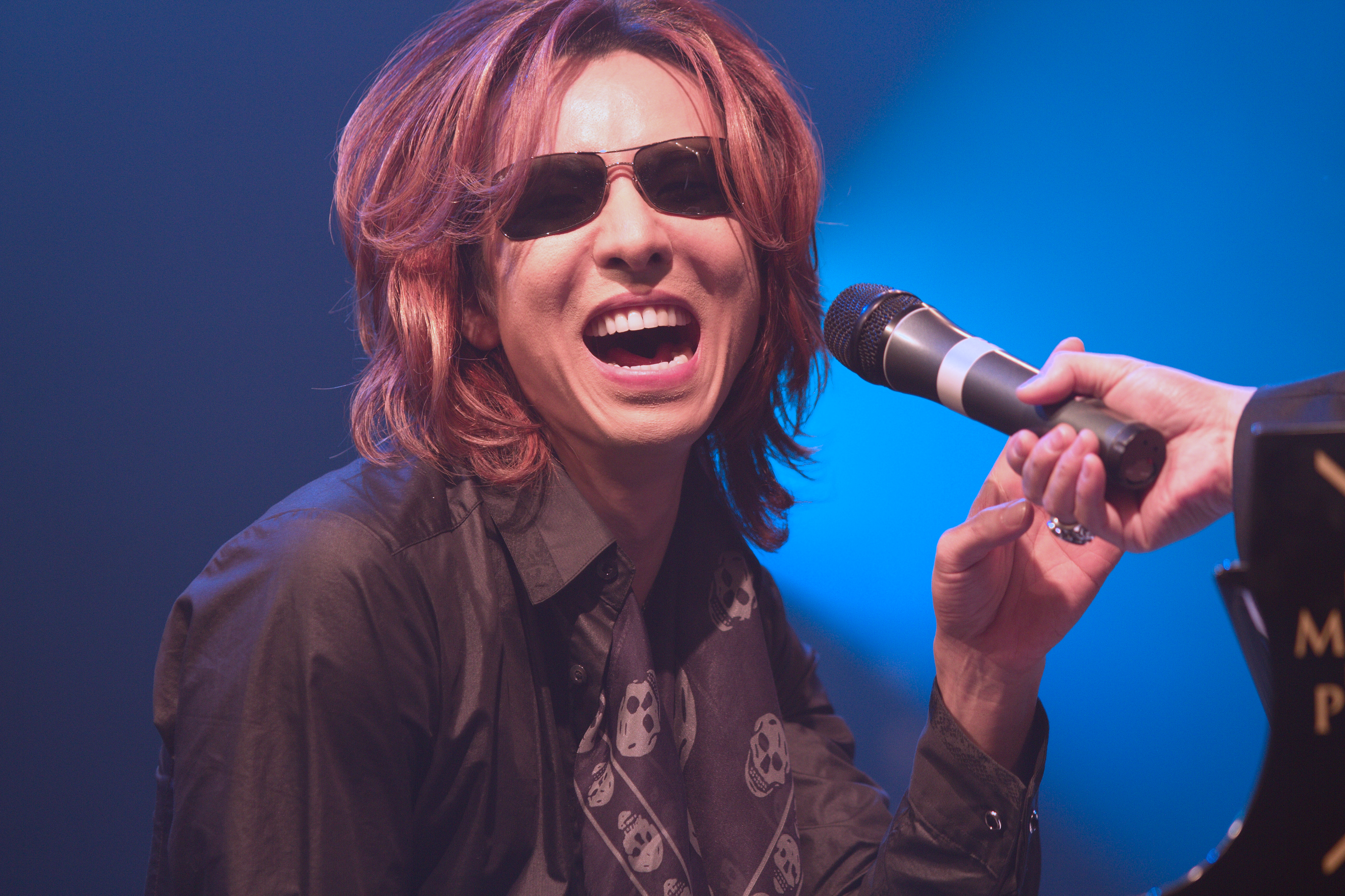 Toshi and Yoshiki, from X Japan, duets at Japan Expo 2010 (Paris, France).